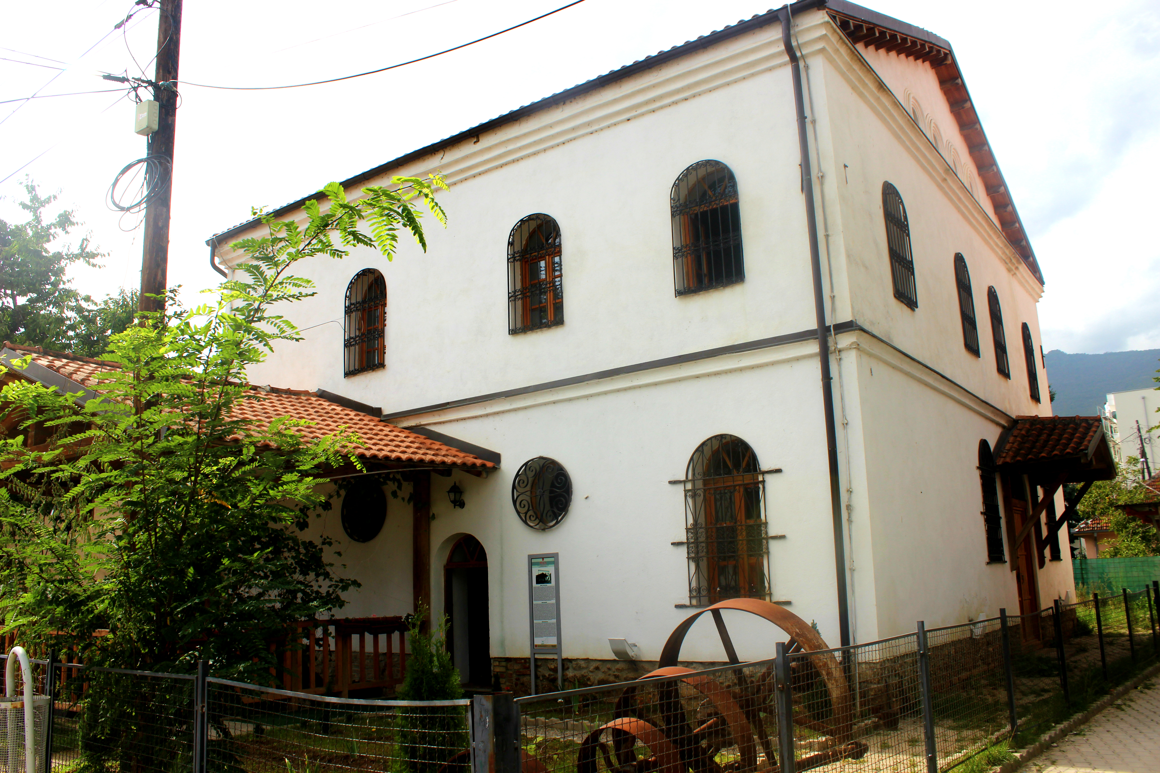 Haxhi Zeka Mill, Peje